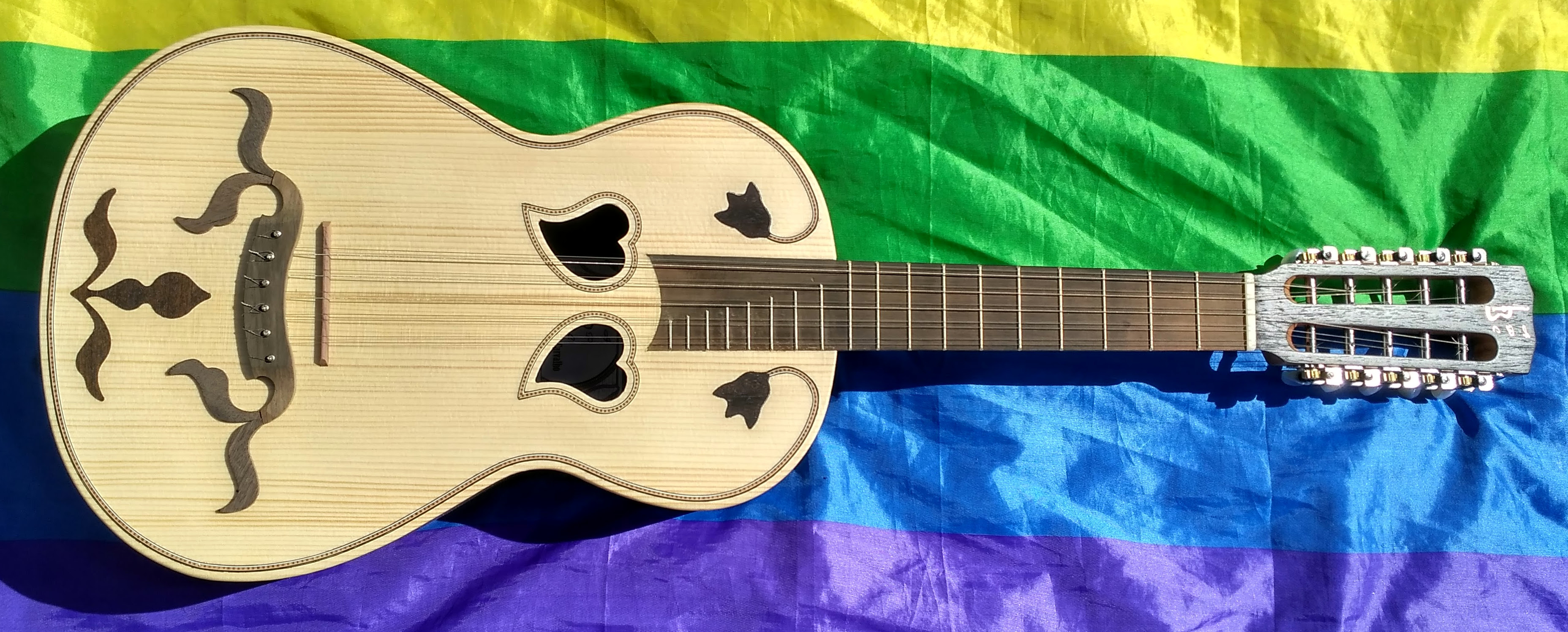 Portuguese Viola amarantina